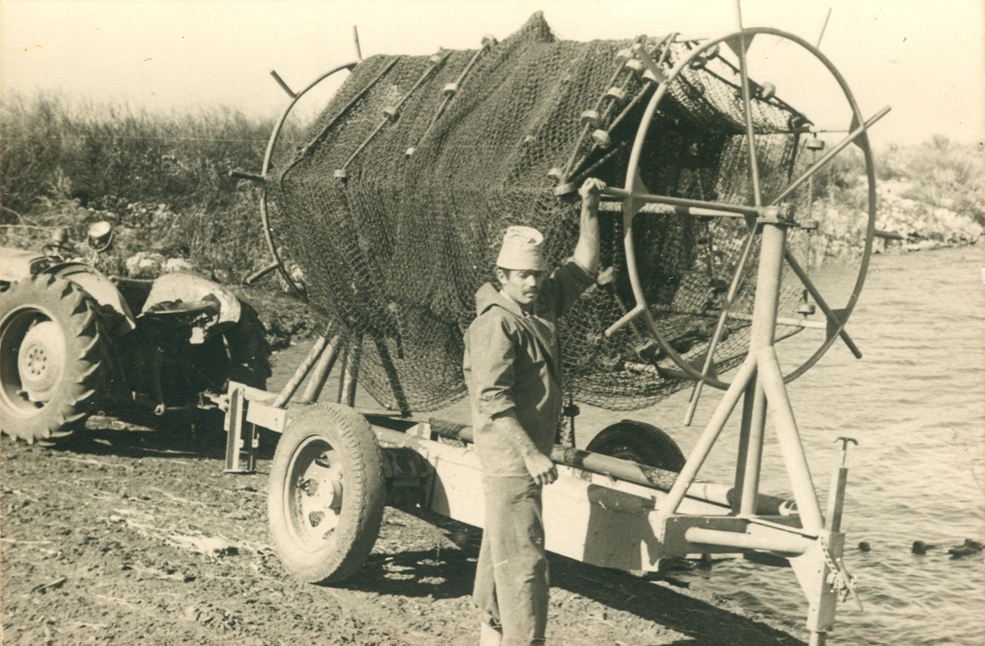 Animal Industries at Kibbutz Ramat Yohanan , Agriculture in Israel